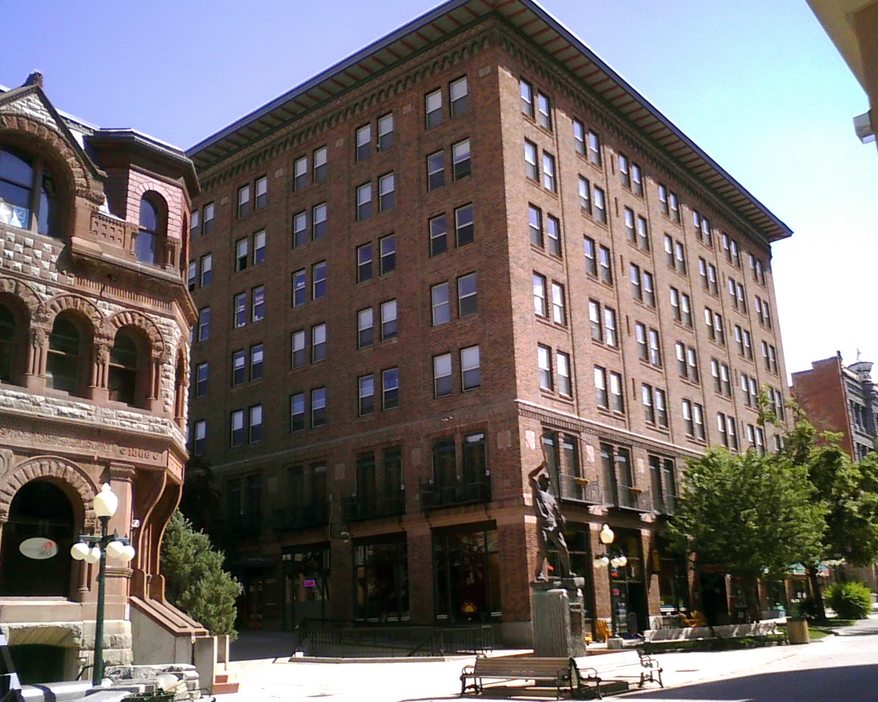 Placer Hotel (15-27 North Last Chance Gulch) Helena, MT. Building on National Register of Historic Places